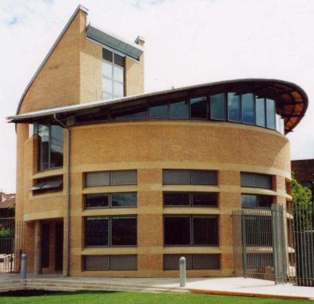 Completed in 2001, and financed by the Dill Faulkes Educational Trust, the Faulks Gatehouse accommodates the Turing Gateway